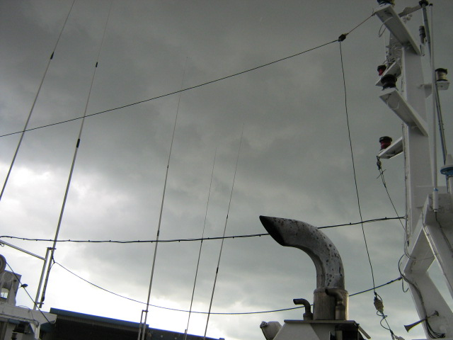 Several antennas on a fishing vessel. The wire antenna attached to the wast with an insulator is called an "inverted-L" antenna. It is used in the medium frequency and high frequency bands. Several fiberglass whip antennas are visible at left, for use with two-way marine radios whip antenna on the sea Aarea A2 DSC 2187,5 kHz and whip antenna on the en:2182 kHz 1,6 MHz - 4 MHz band and maritime radiotelephone communications and sea areas A2 and A3 and A4 whip antenna on the 2 MHz - 26 MHz band.